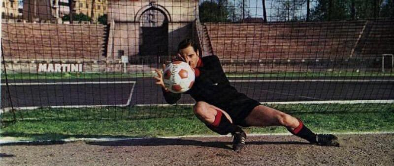 Milan (Italy), Arena Civica ("Civic Arena"), 1970. A.C. Milan goalkeeper Fabio Cudicini in action for the photographer.